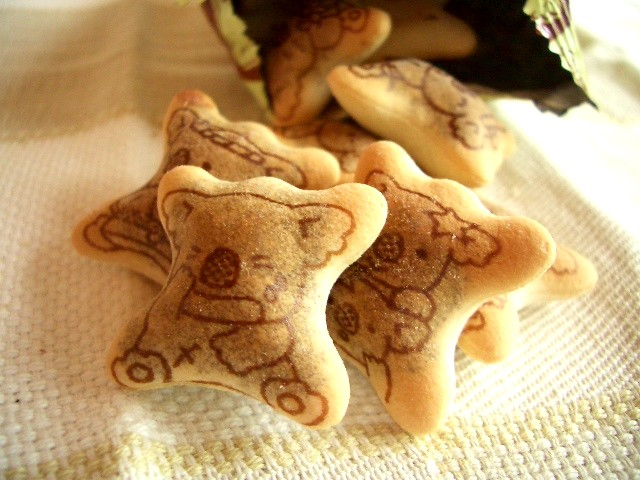 Koala's March - Japanese choco sweet, made by LOTTE Co., Ltd.